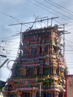 ThanjavurYadhavakannan temple தஞ்சாவூர்யாதவகண்ணன்கோயில்